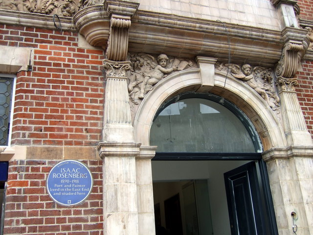 Isaac Rosenberg plaque Isaac Rosenberg, painter and poet, was born in Bristol in 1890 but his family moved to the East End of London as a child. He was one of a group of young Jewish artists and writers, including David Bomberg, Mark Gertler, John Rodker, Stephen Winstein, Joseph Lefkowitz and Sonia Cohen, who met at the Whitechapel Library where this plaque located. He joined a bantam regiment (for men under 5 feet tall) in order to fight in WW1 and was killed on the Western Front in 1918.